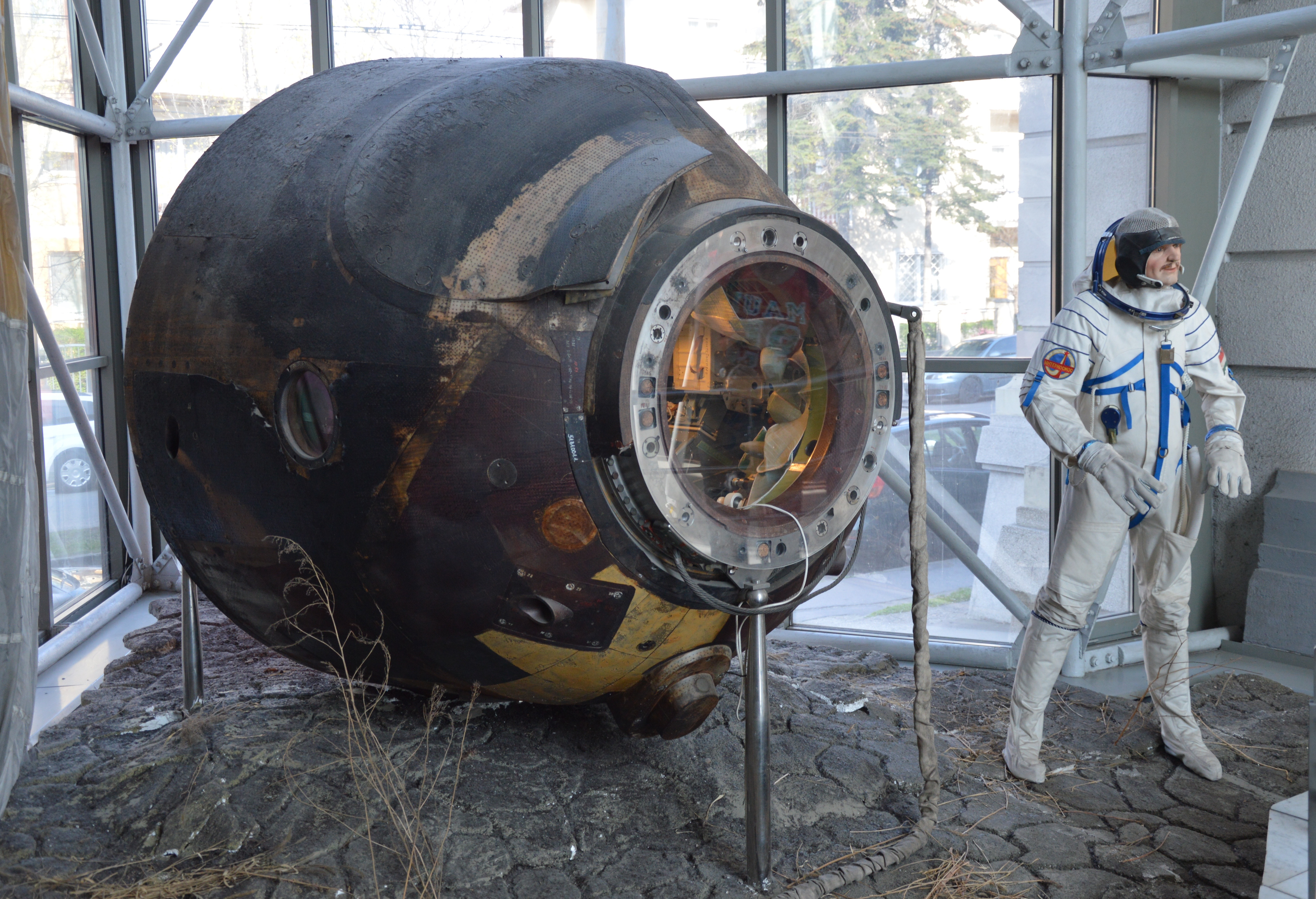 The reentry capsule of Soyuz-35 spacecraft and Farkas Bertalan's Sokol-K spacesuit on display at the Hungarian Technical and Transportation Museum